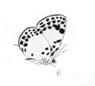 Tuxentius carana (Hewitson, 1876). Figured as Lycæna carana. Plate: Lycæna, Fig. 6, Illustrations of new species of exotic butterflies, Vol. V.